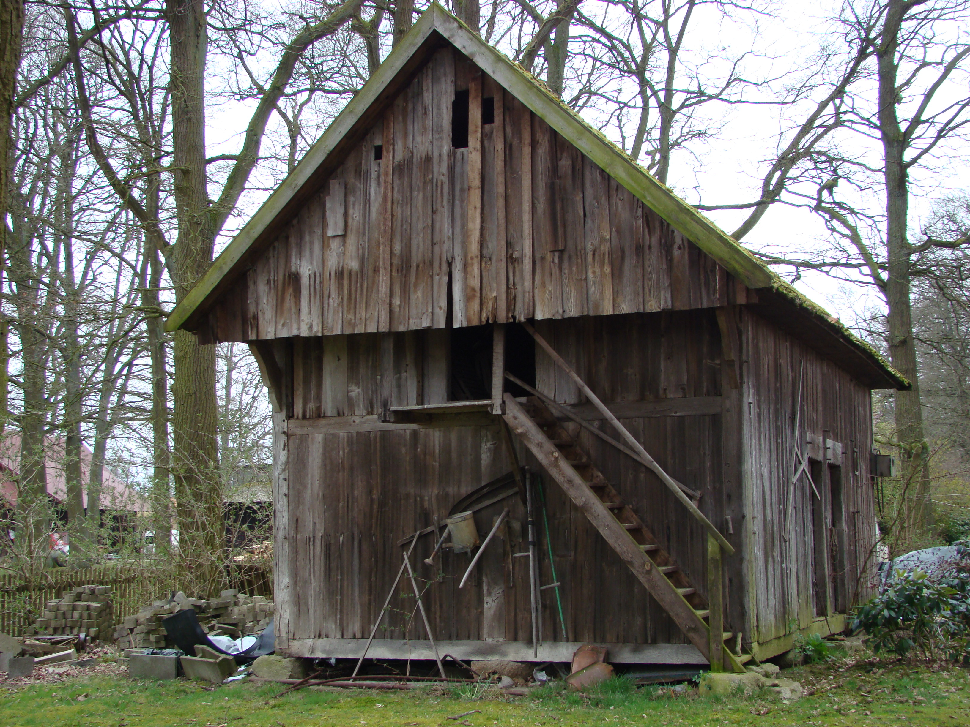 Treppenspeicher storage barn from 1767, Lüneburg Heath, Germany